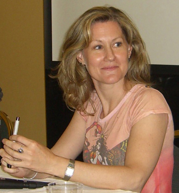 Voice actor Veronica Taylor speaking on a panel on voice acting at the Big Apple Convention in Manhattan, June 8, 2008.